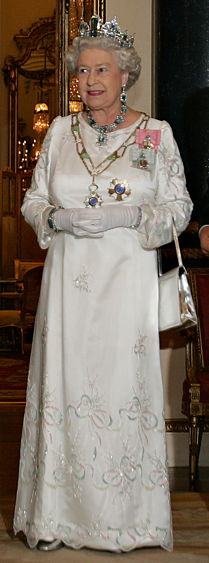 Queen Elizabeth II of the United Kingdom during a state banquet in honor of Brazilian president Lula da Silva at Buckingham Palace, London.